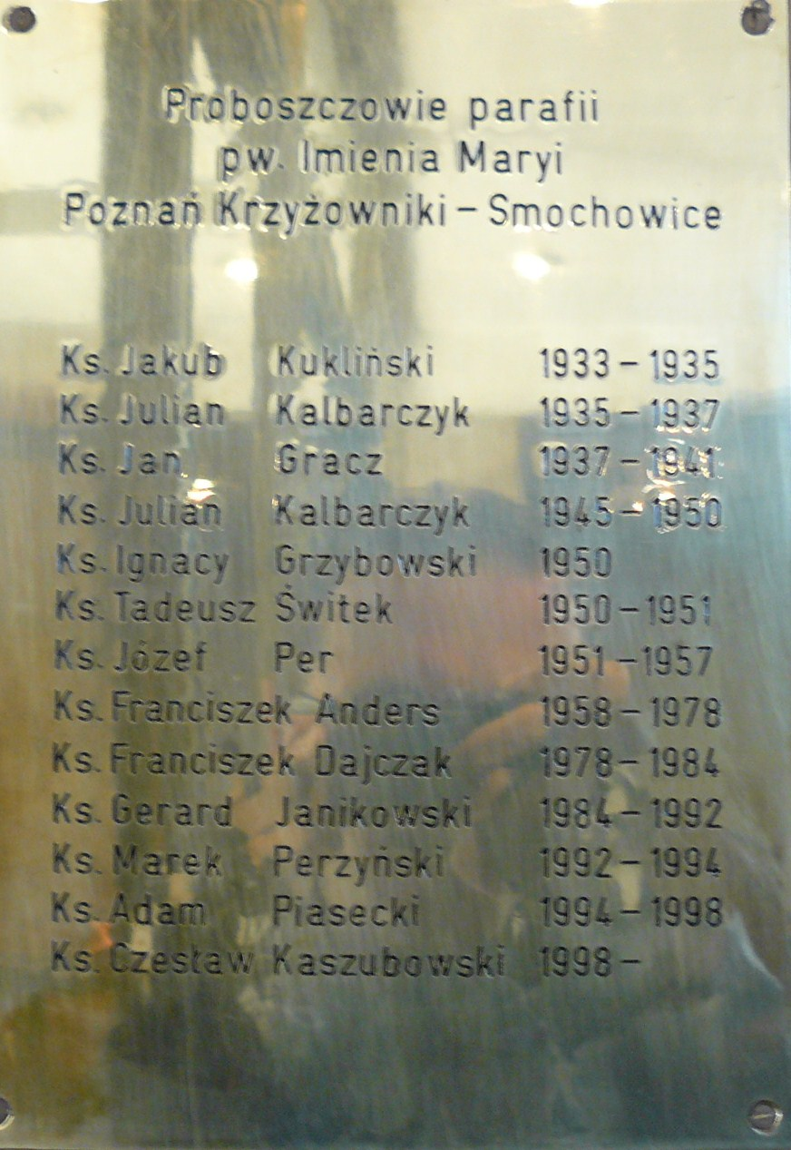 Smochowice Church in Poznan. Plaque.